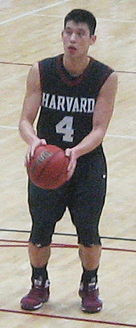 Palo Alto native and Harvard University senior men's basketball player Jeremy Lin at the free throw line on Monday, January 4th, 2010 playing against Santa Clara University in Santa Clara, California. Harvard defeated Santa Clara 74-66 in front of a sold out game.